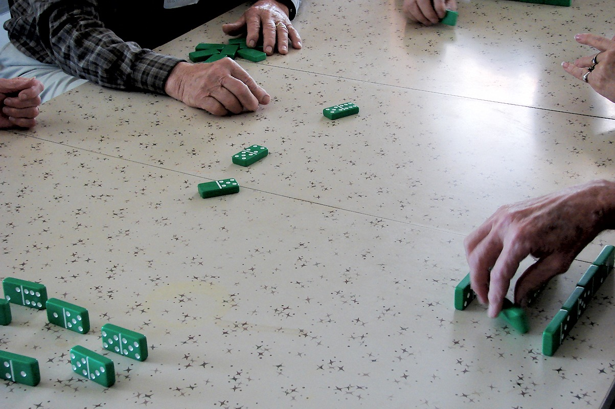 A game of 84 (dominoes)